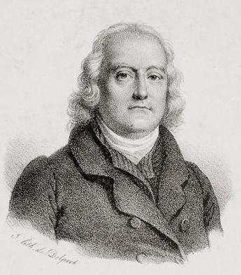 Portrait of François-Antoine de Boissy d'Anglas (1756-1826), French politician and writer